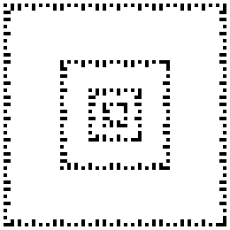 The Thue-Morse sequence, graphed, and placed in squares. Note how odd and even levels have different structures (most apparent at the corners).